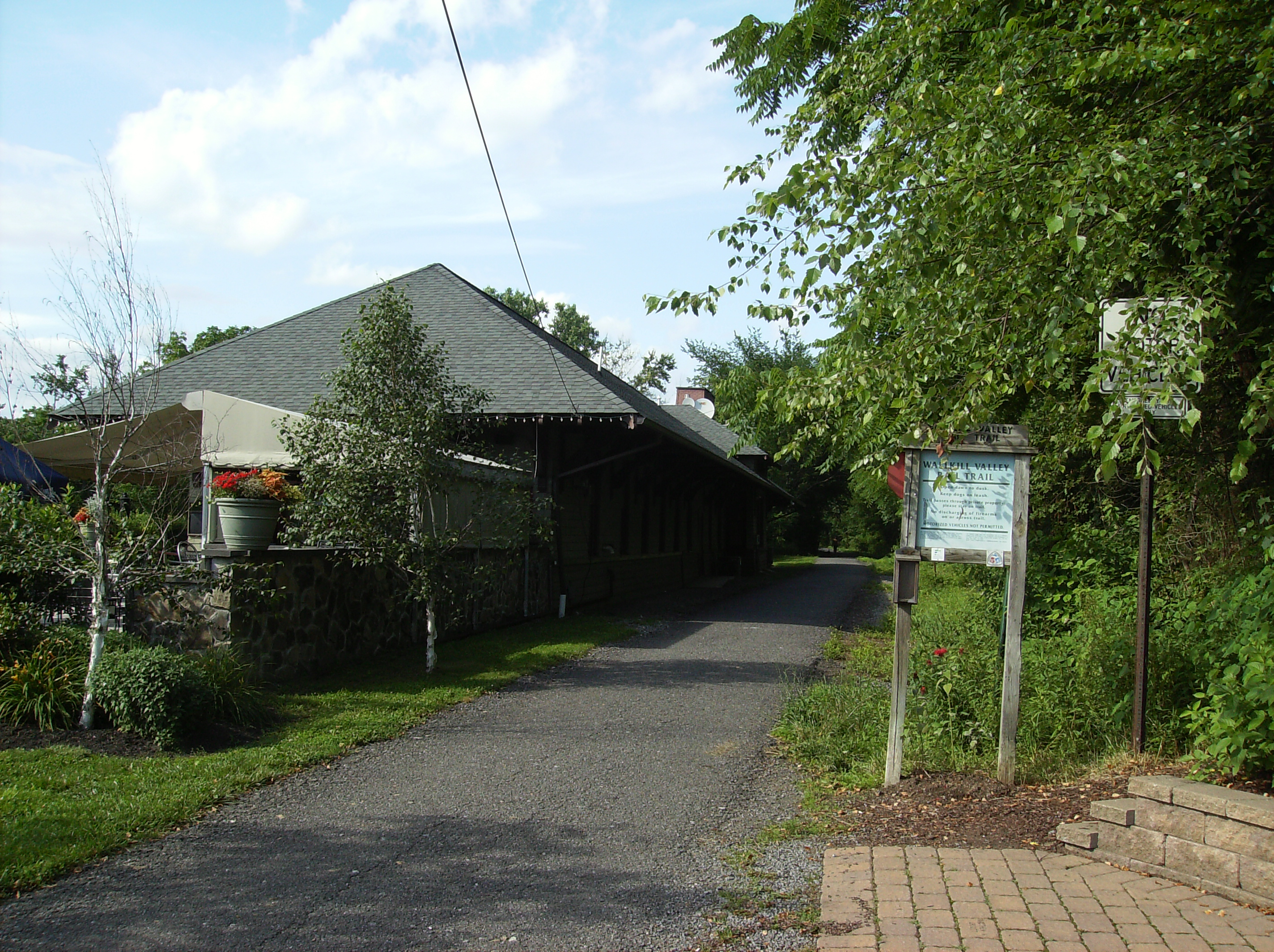 La Stazione, viewed from the Wallkill Valley Rail Trail in the village of New Paltz, New York.